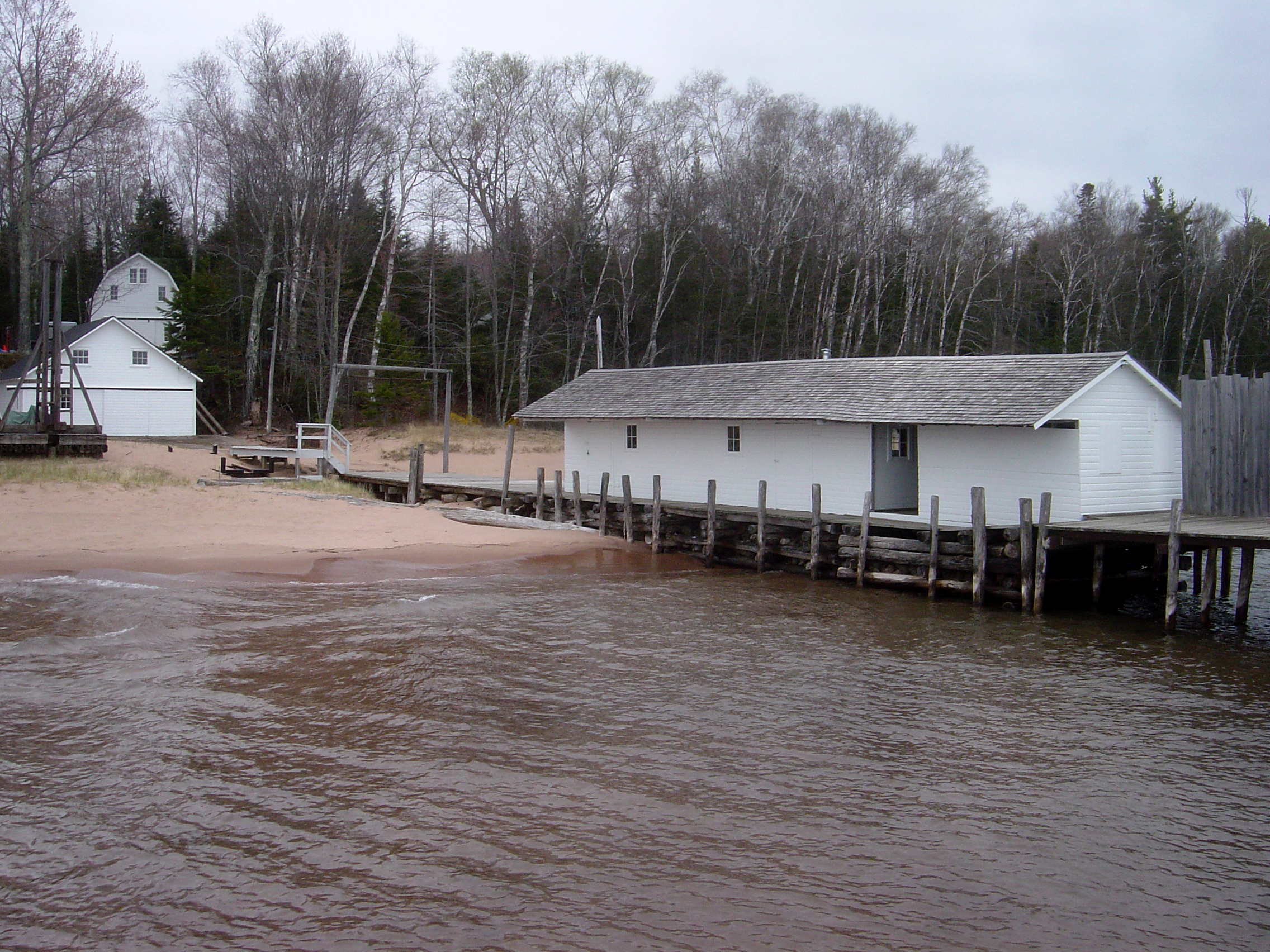 Hokenson Fishery, a part of the Little Sand Bay Visitor Center on the mainland of the Apostle Islands National Lakeshore)